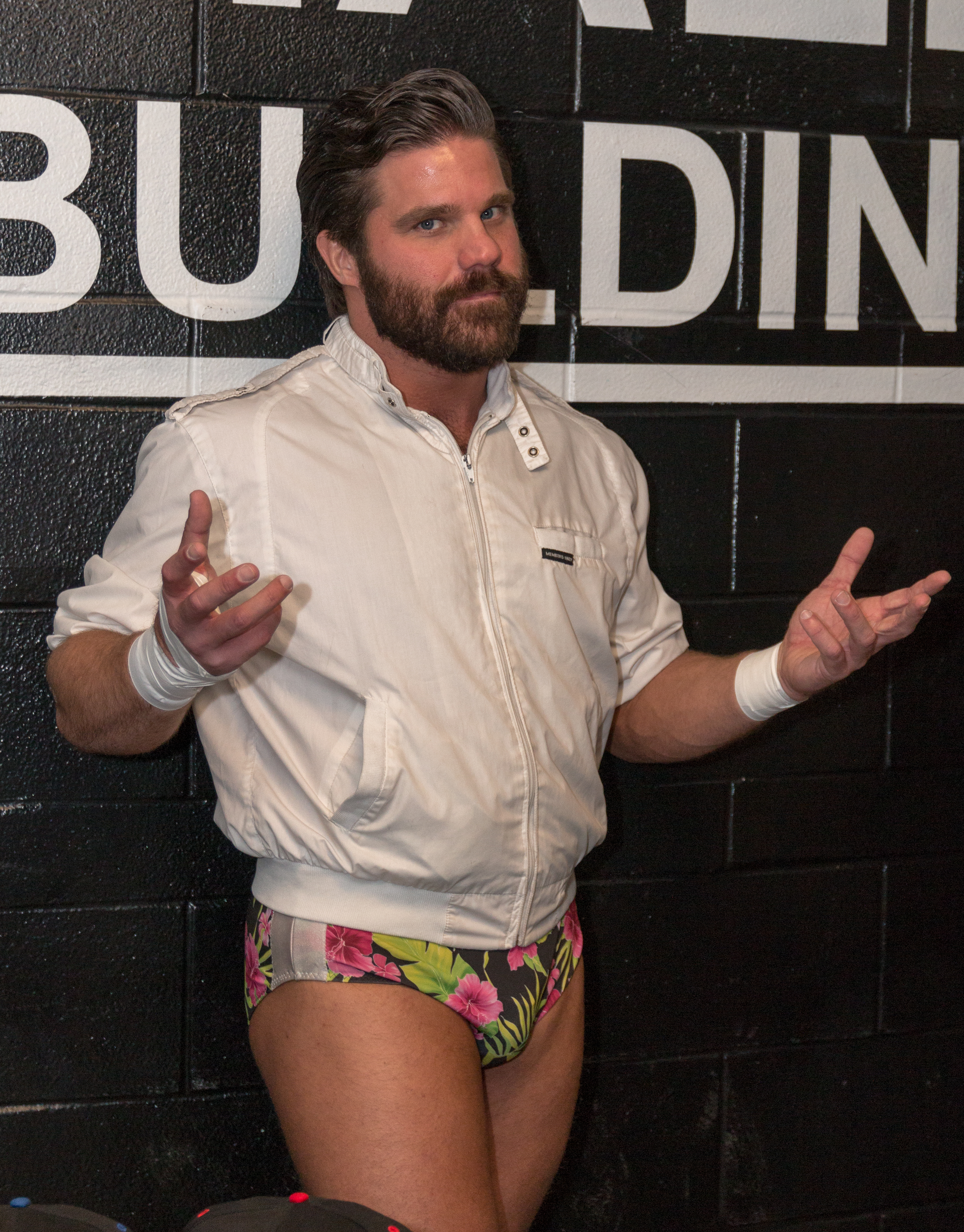 Independent wrestler Joey Ryan at a Smash Wrestling show at Fanshaw College in London, ON